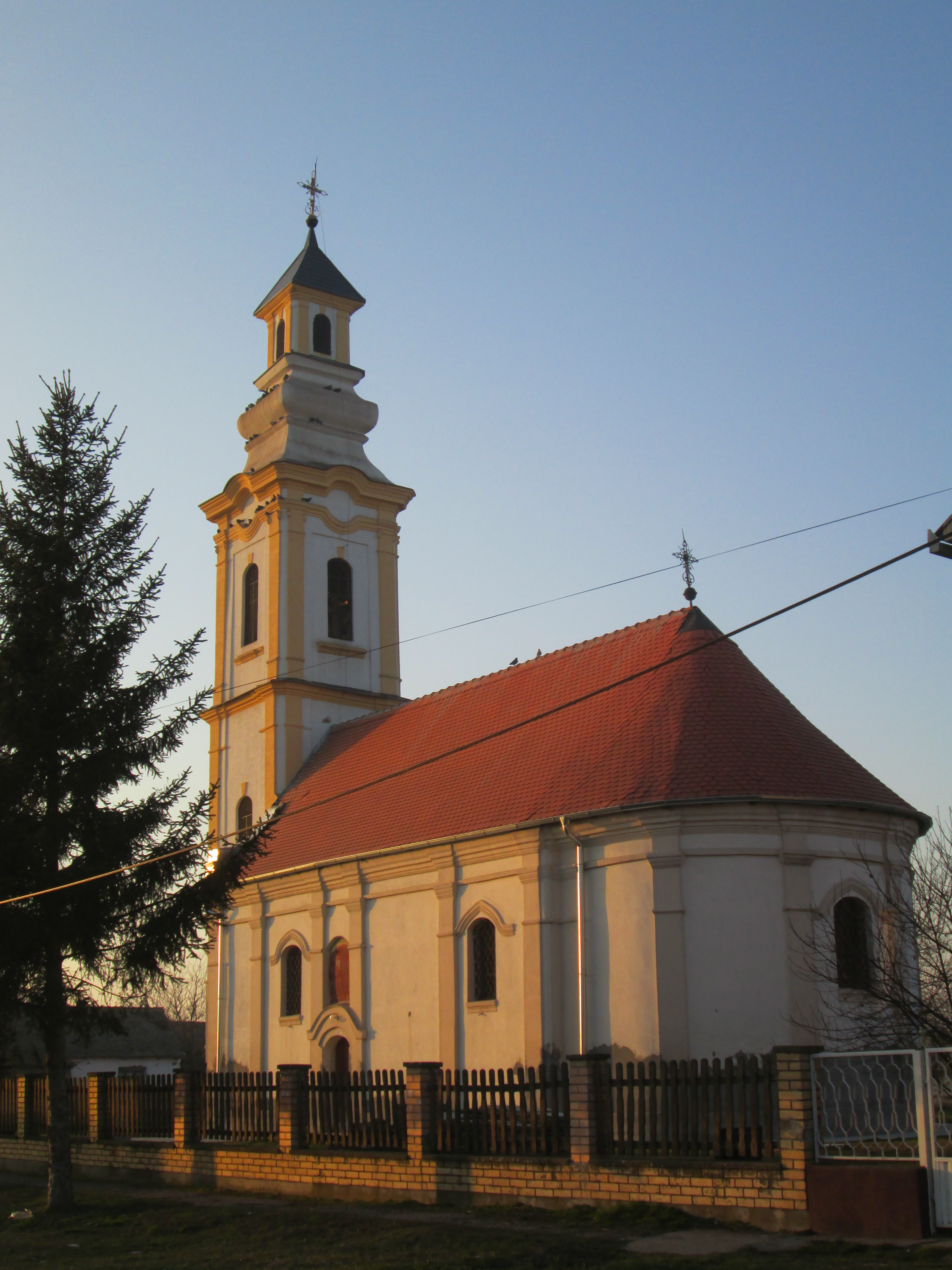 St. Nicholas Church, Sibač Српски (ћирилица): Црква св. Николе, Сибач